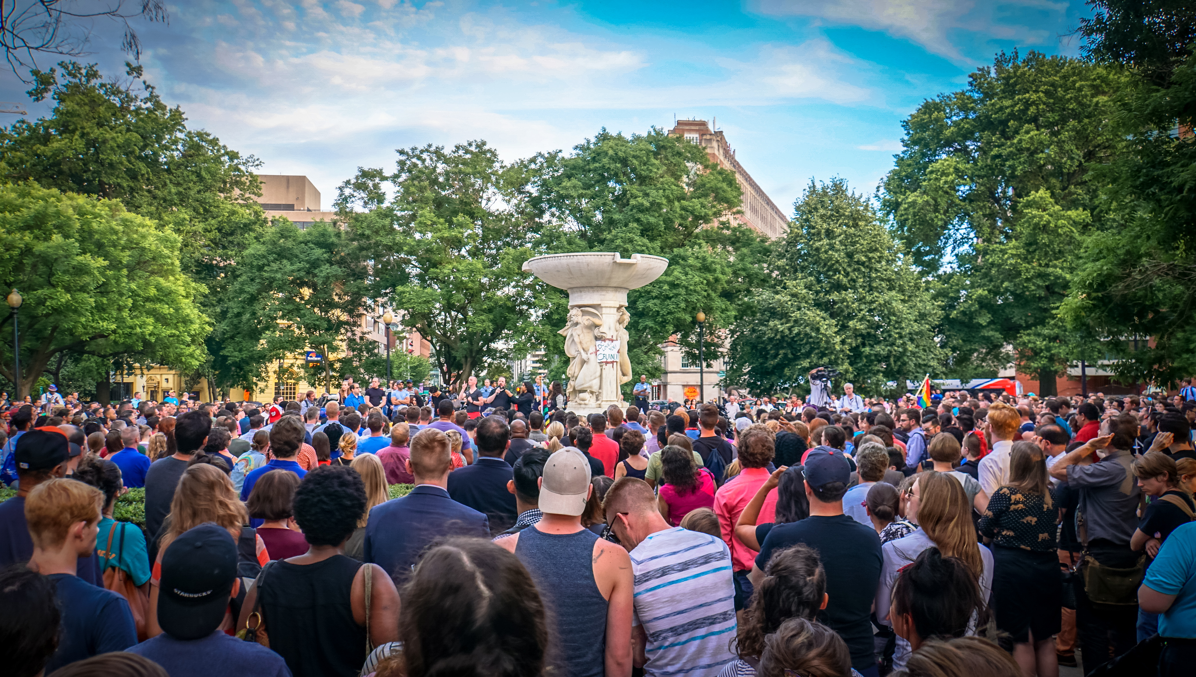 Vigil in support of the victims of the 2016 Orlando nightclub shooting, Washington, D.C.